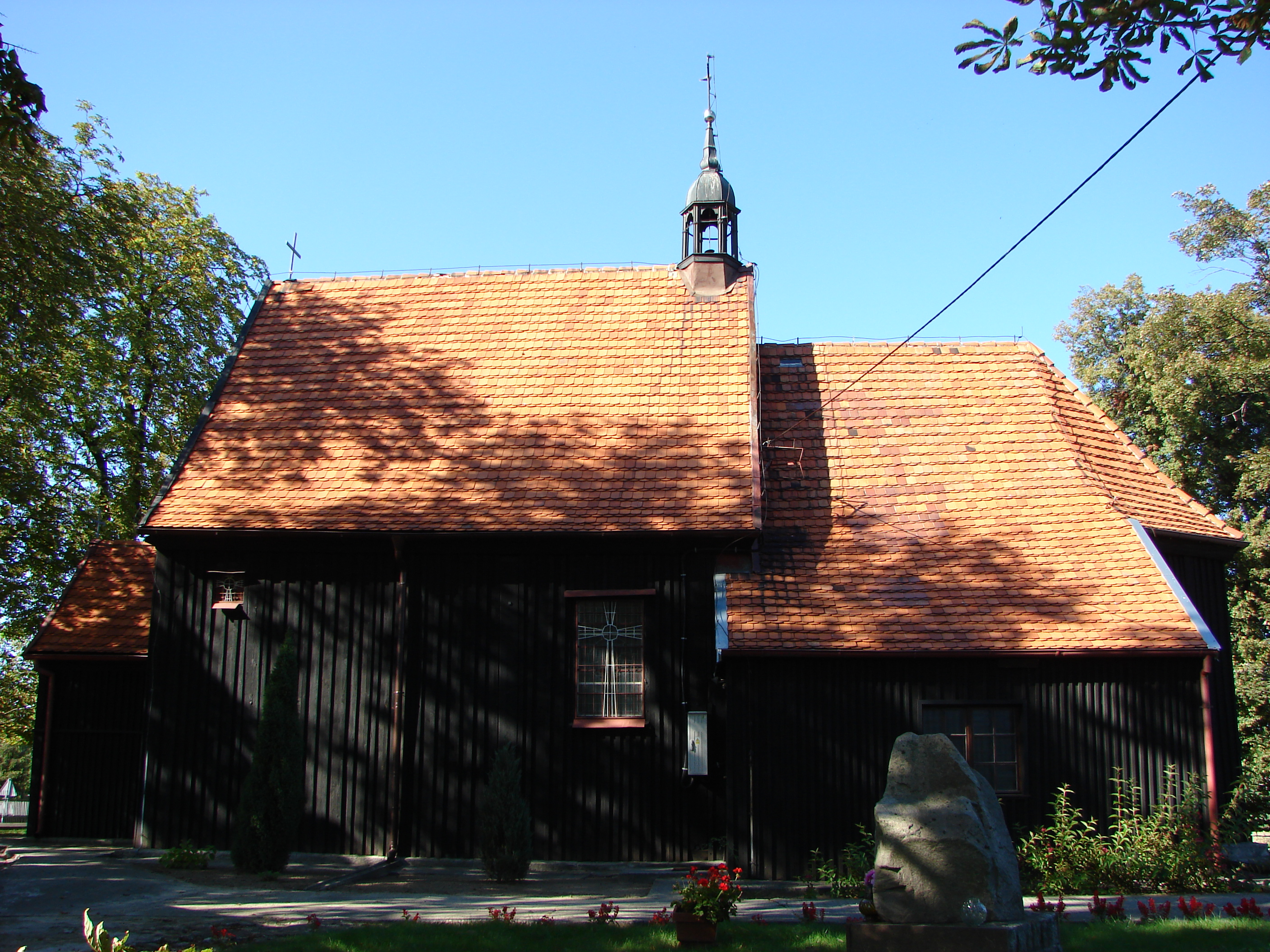 Strzelce, Gmina Mogilno. St. Mary's wooden church from the first half of XVII century.